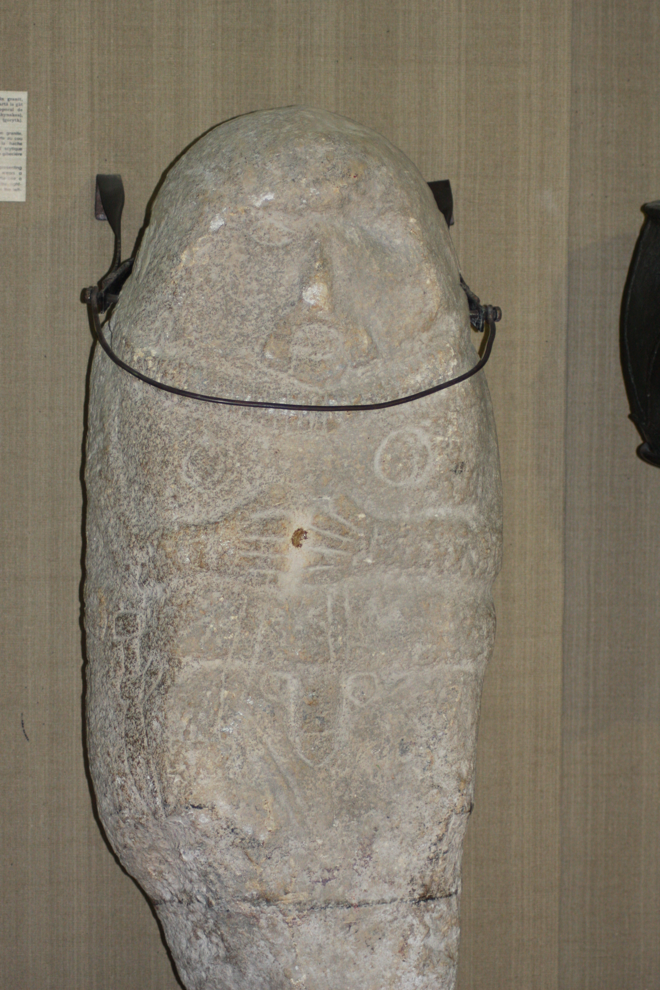 Scythians Granite;Limestone representation of a traco-scyhtian chief discovered at Sibioara